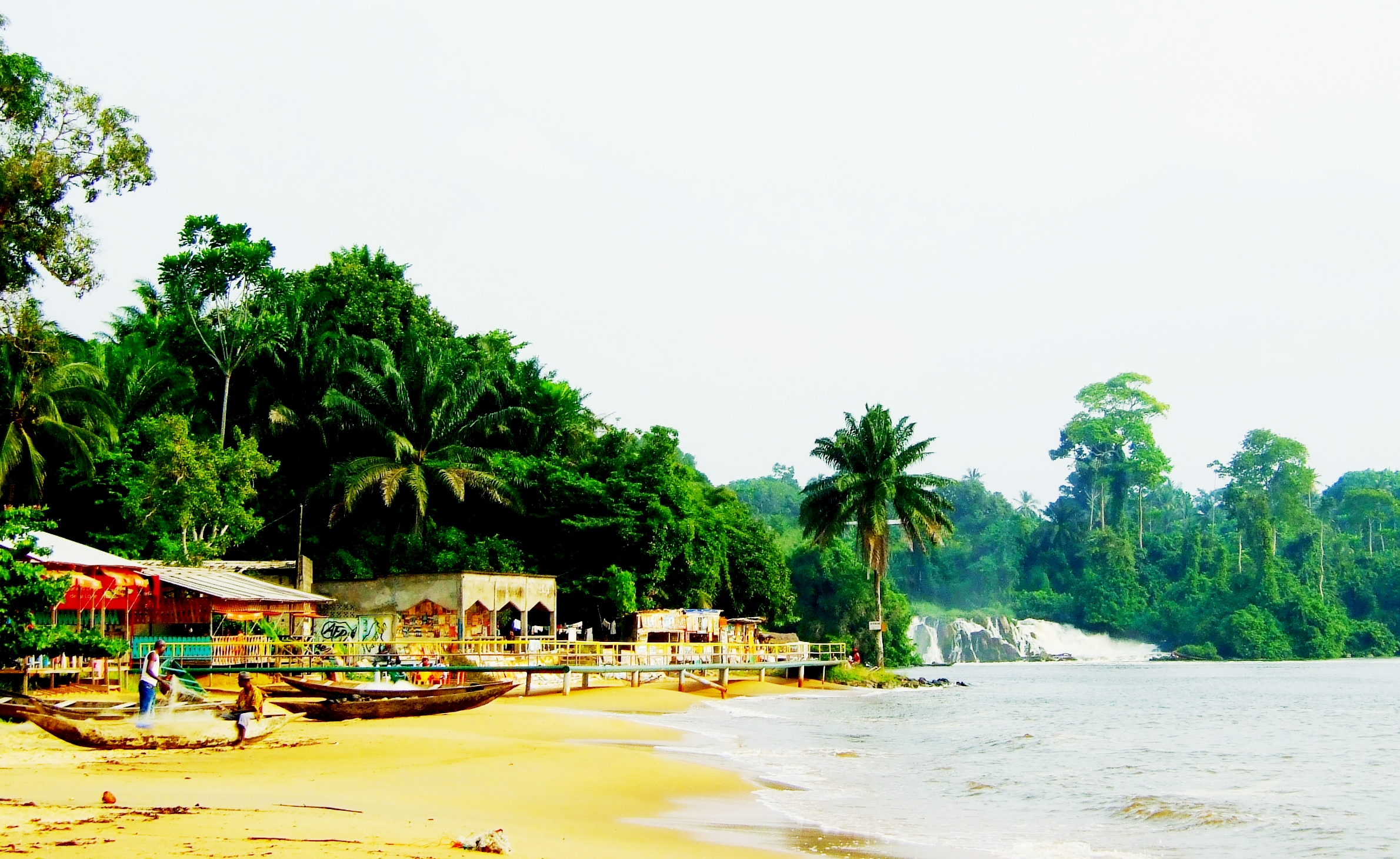 One of the few waterfalls in the world that fall straight into the ocean. Kribi, Cameroon.